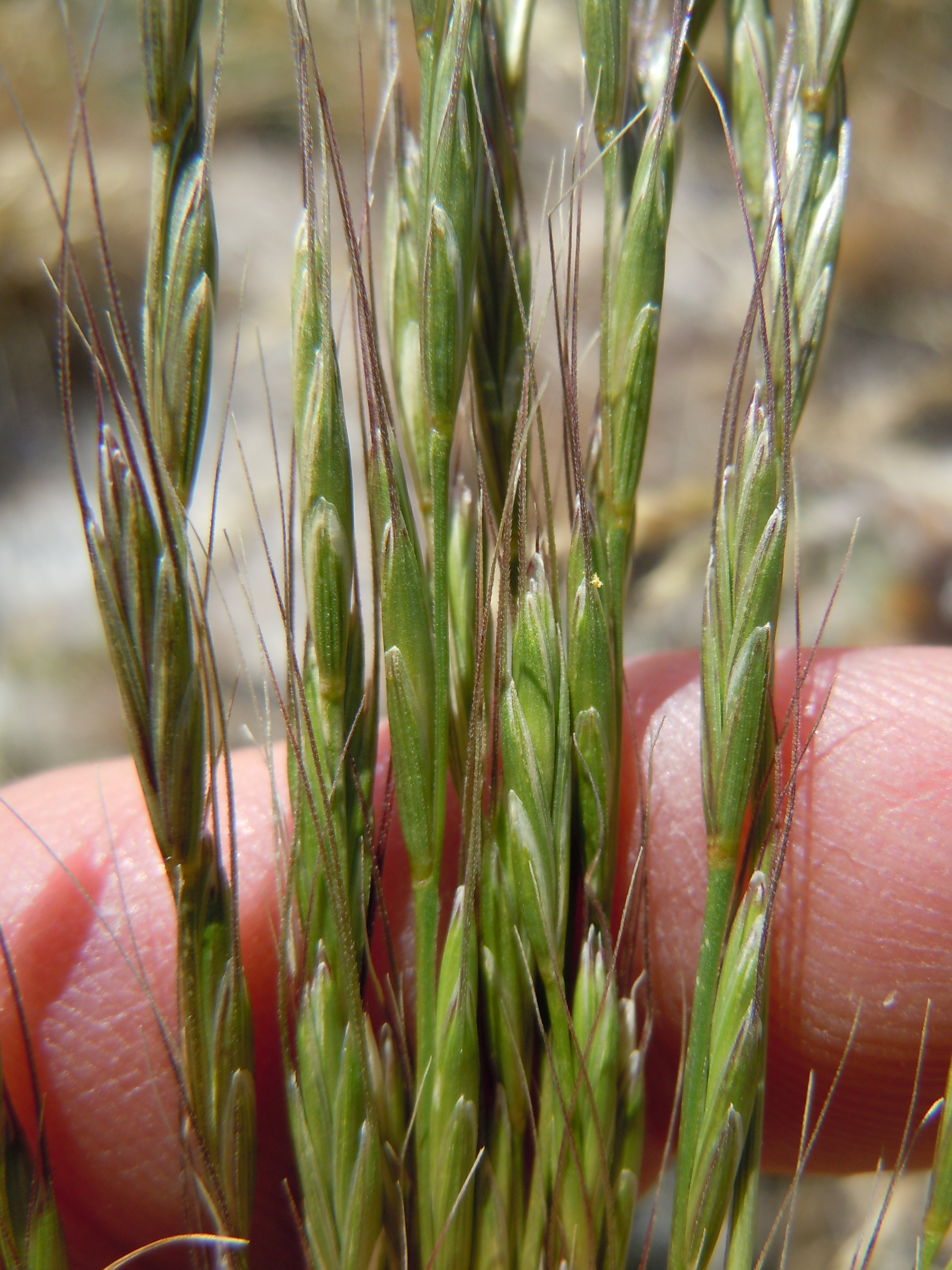 Glumes usually less than half the length of the subtending internode are characteristic of bluebunch wheatgrass.